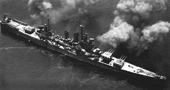 The U.S. Navy heavy cruiser USS Wichita (CA-45) firing a broadside.